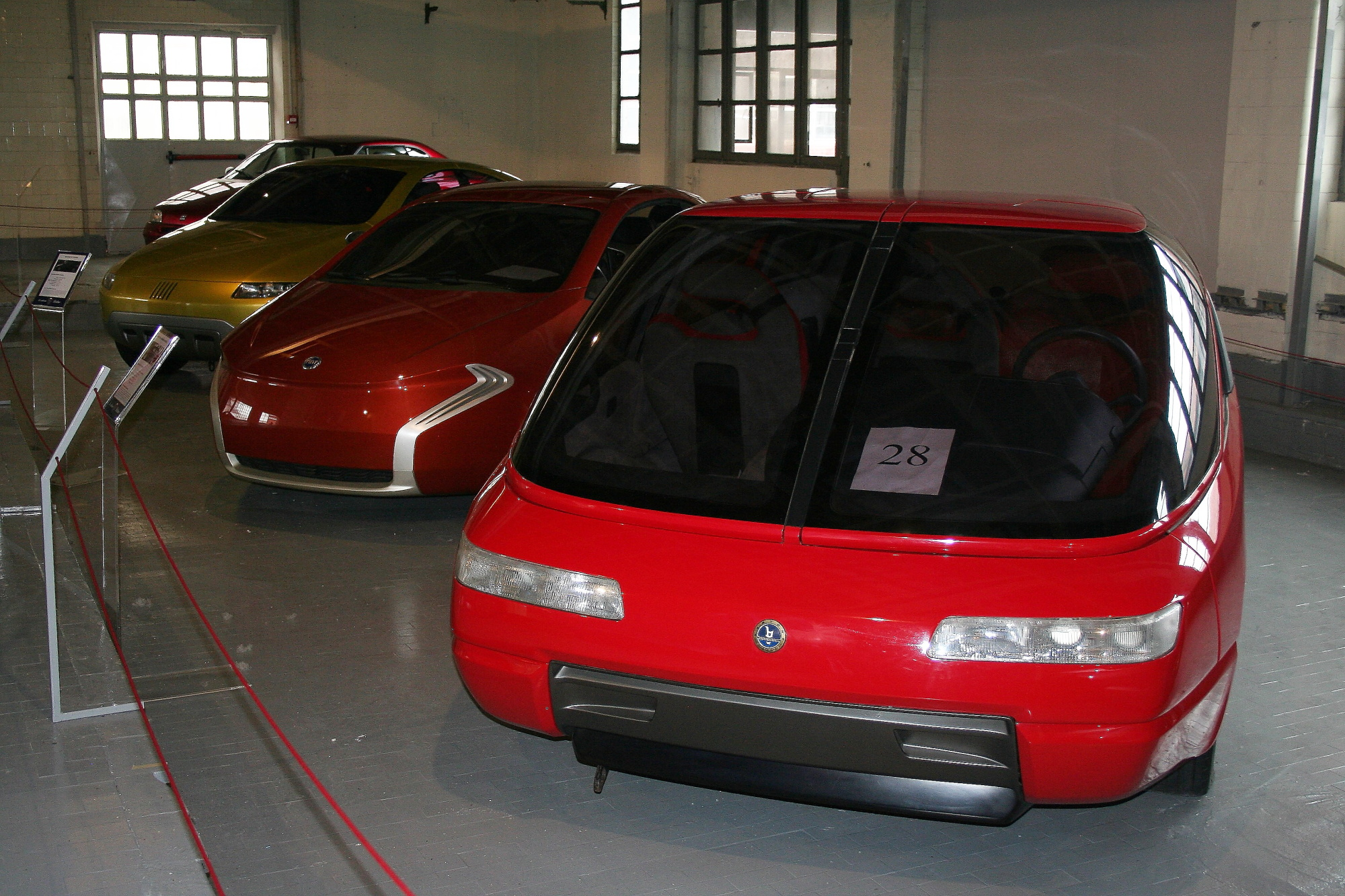 At the Bertone collection of the Automotoclub Storico Italiano (ASI), located in Volandia outside of Milan (by the Malpensa airport and museum areas